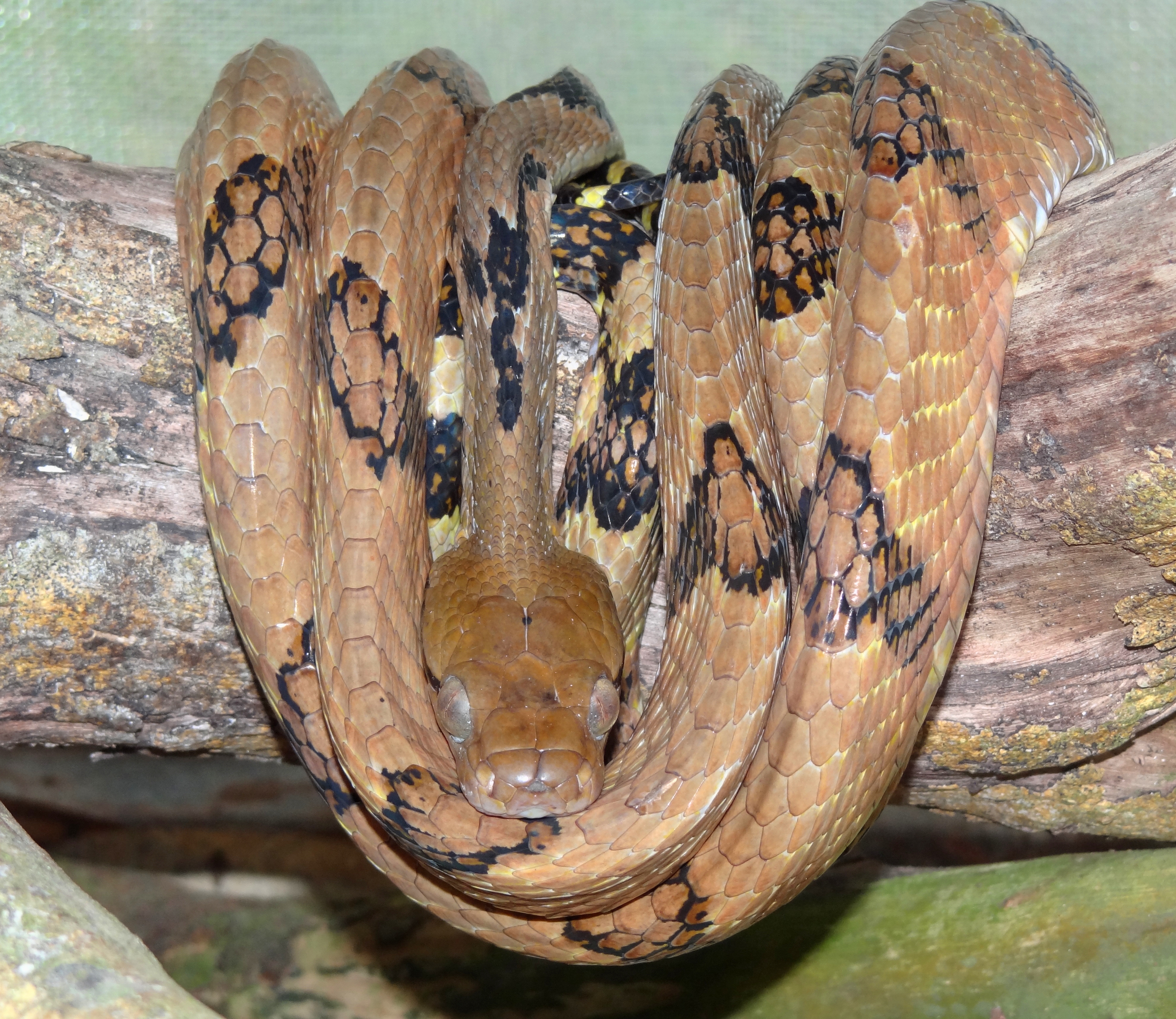 A Dog-toothed Cat Snake photographed in a butterfly garden near Brinchang in the Cameron Highlands, Malaysia.